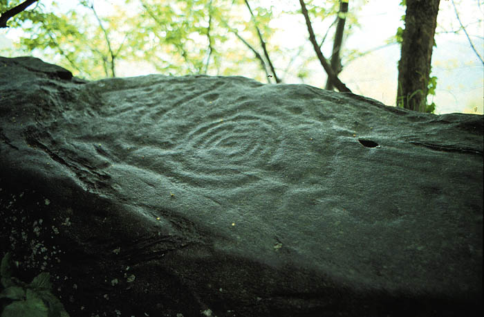 The SUS 277 NOVALESA 2 (Valcenischia, TO - I) engraved rock with concentric circles, channels and cup-marks